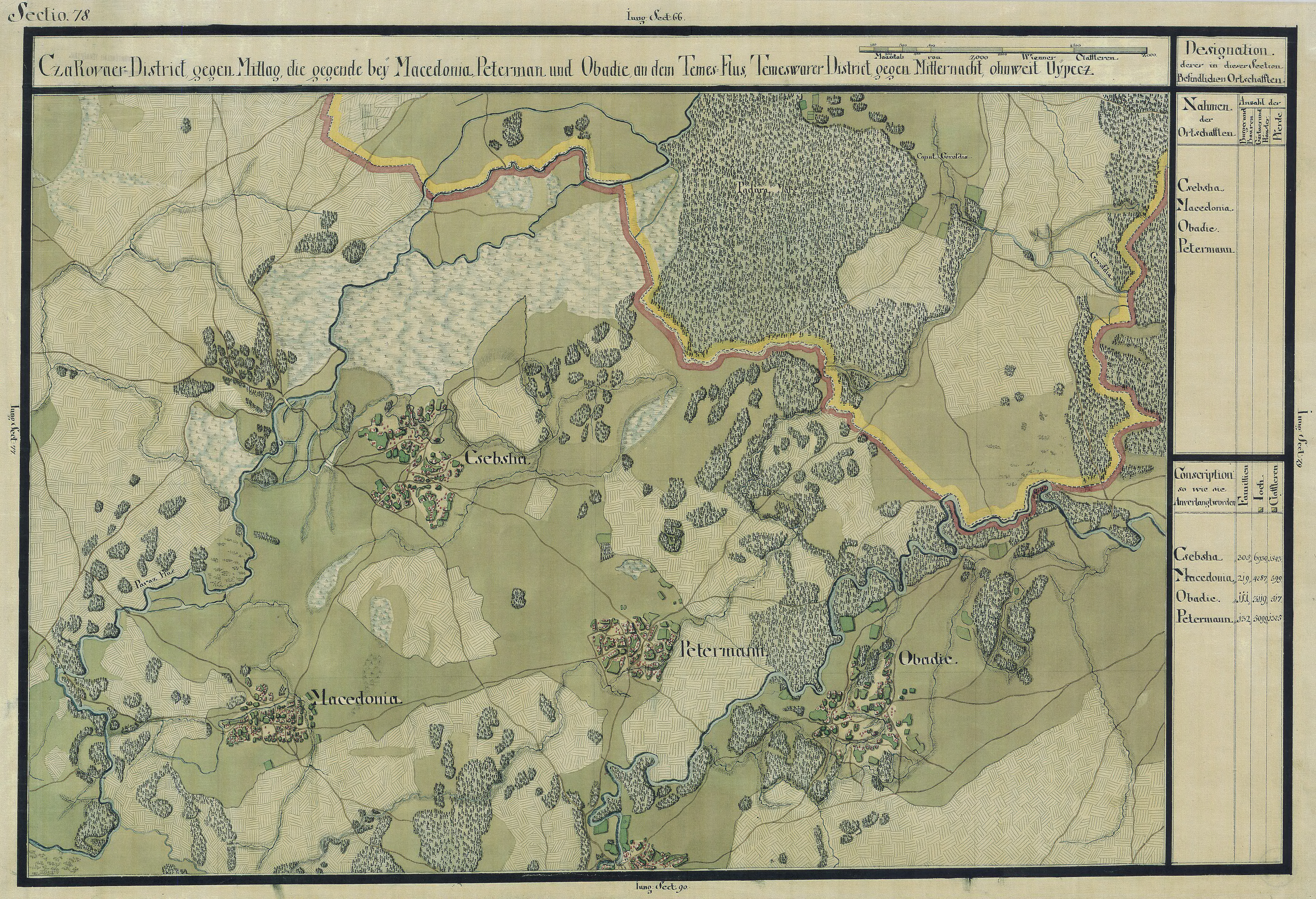 The Banat region in the cadastral maps: Josephinische Landesaufnahme, 1769-72. Josephinische Landaufnahme pg078